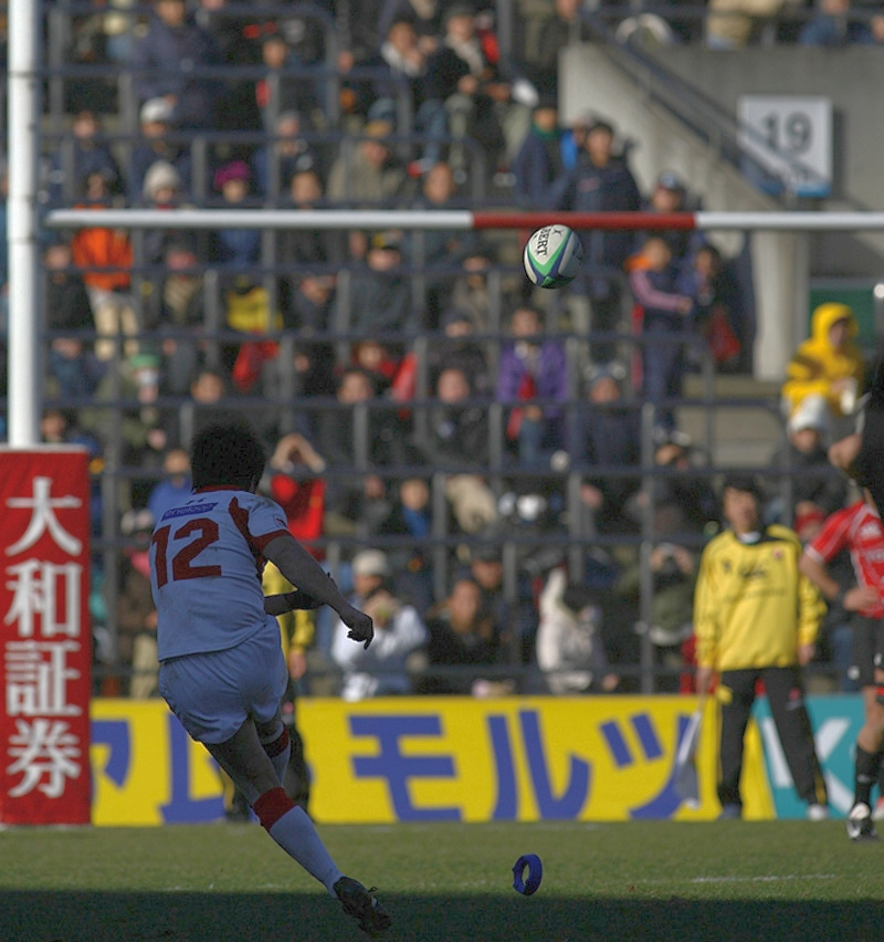 FEBRUARY 8, 2009 - Rugby: SANYO Electric Wild Knights player Masakazu Irie kicks for goal during the Japan Rugby Top League 2008-2009 Play off Tournament Microsoft Cup Final between TOSHIBA Brave Lupus and SANYO Electric Wild Knights at Chichibunomiya Rugby Stadium on February in Tokyo, Japan. (Original photo by Tsutomu Takasu)